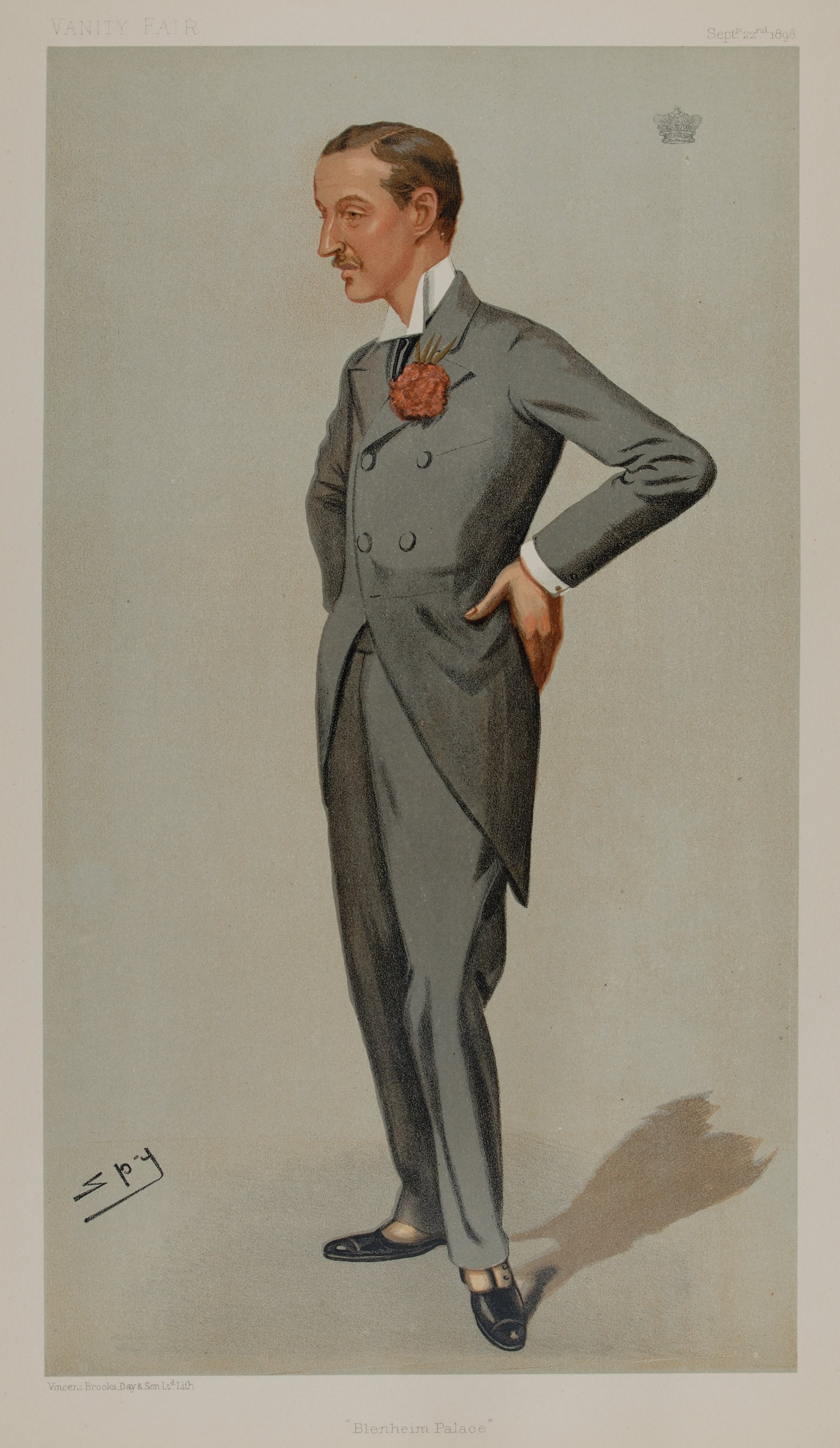 Statesmen No. 699: Caricature of Charles Spencer-Churchill, 9th Duke of Marlborough. Caption read "Blenheim Palace".